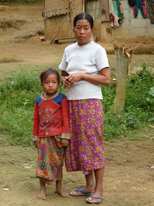 Ban Huay Hao, a Khmu village, Bokeo Province, Laos.